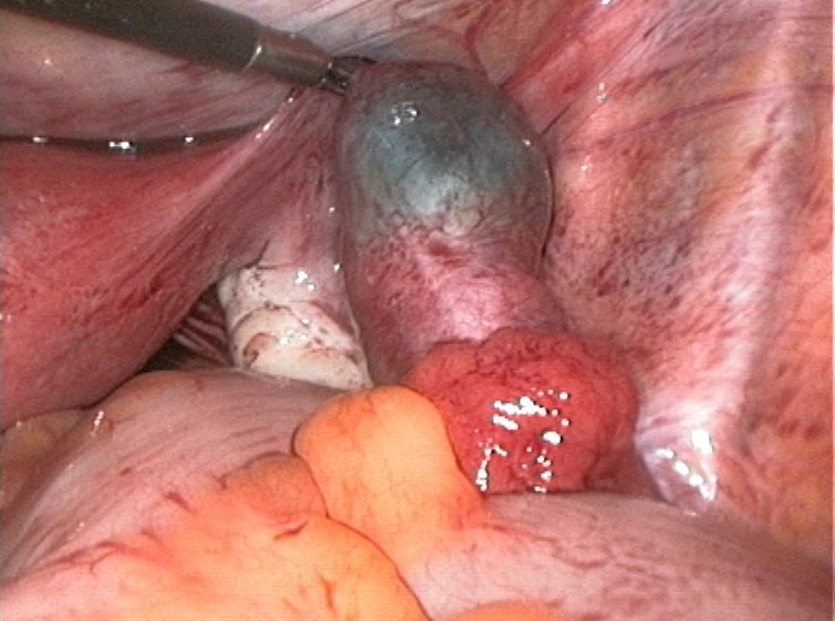 tubal pregnancy of the right Fallopian tube